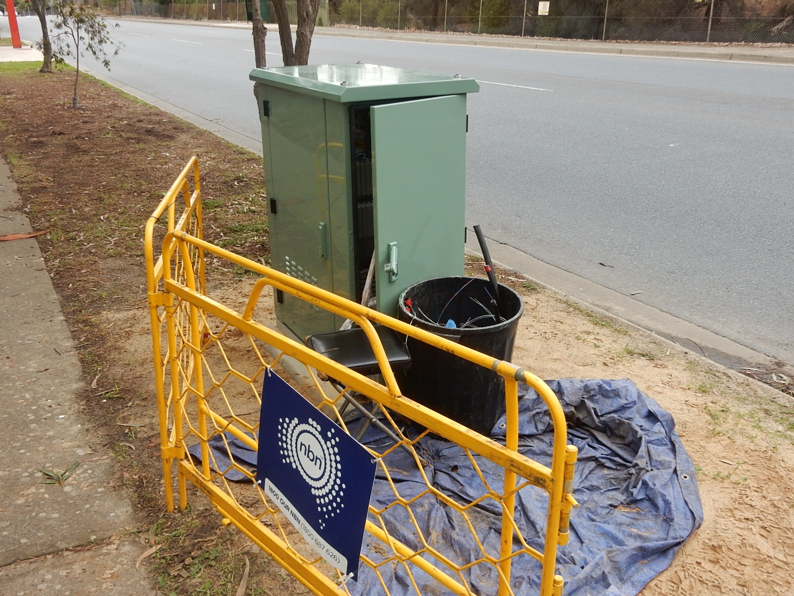 A National Broadband Network fibre optic node on a nature strip in Adelaide, showing barrier and installation accessories.